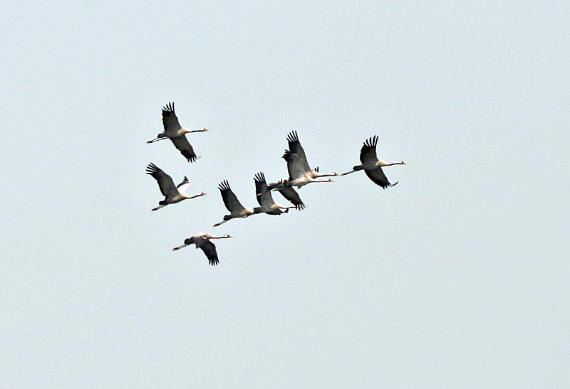 Common Cranes (Grus grus) at Sultanpur National Park in Gurgaon District of Haryana, India.